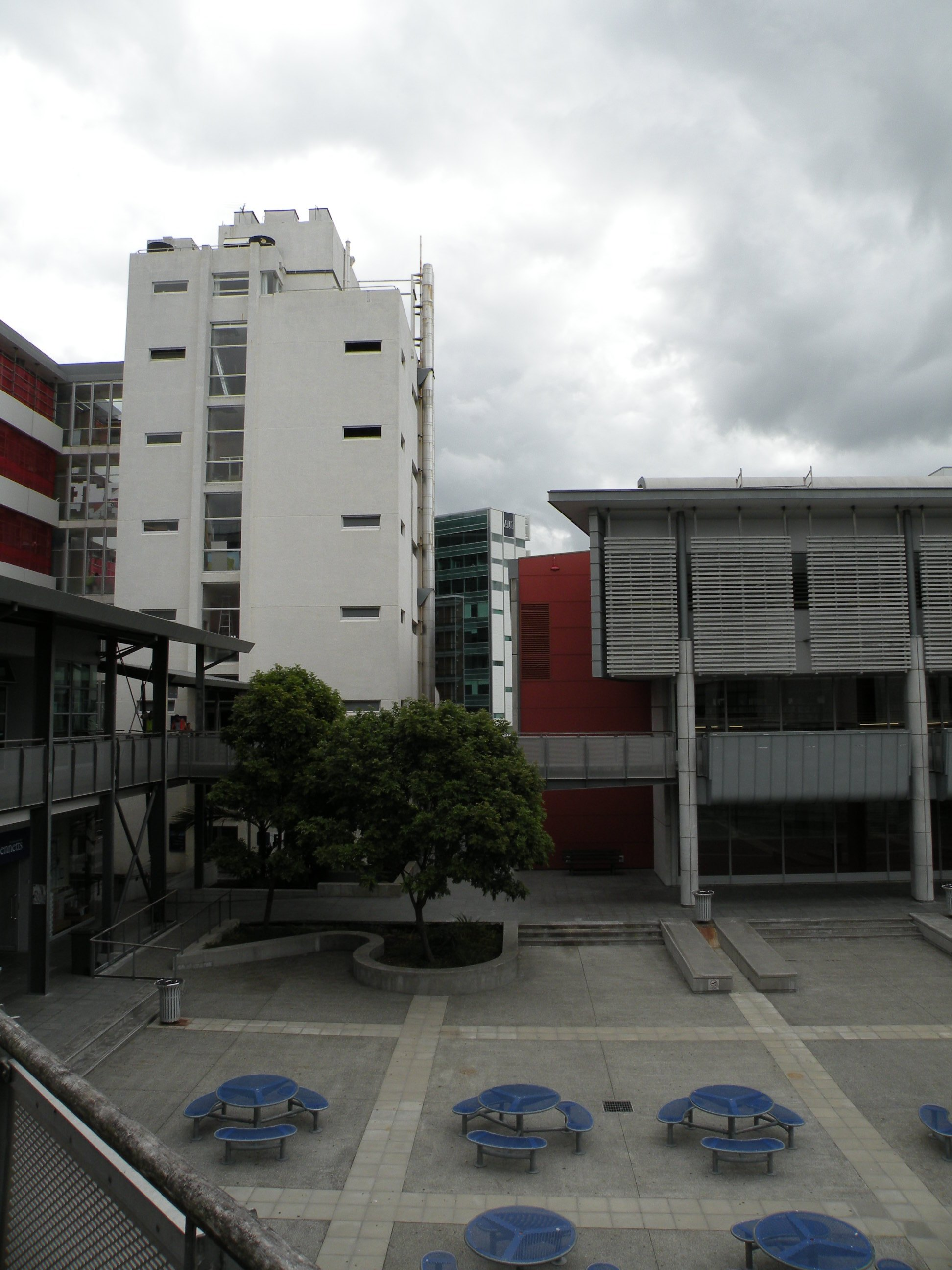 AUT university quad